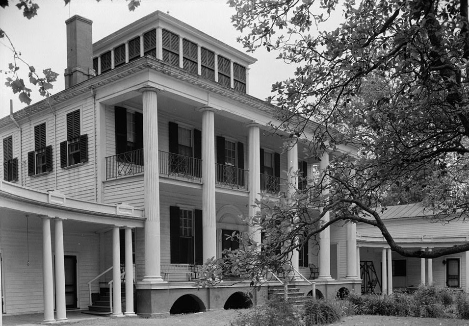 Hayes Manor plantation house — East Water Street vicinity, Edenton vicinity, Chowan County, North Carolina. VIEW FROM SOUTHWEST (REAR). 1940 photograph from the HABS—Historic American Buildings Survey images of North Carolina.